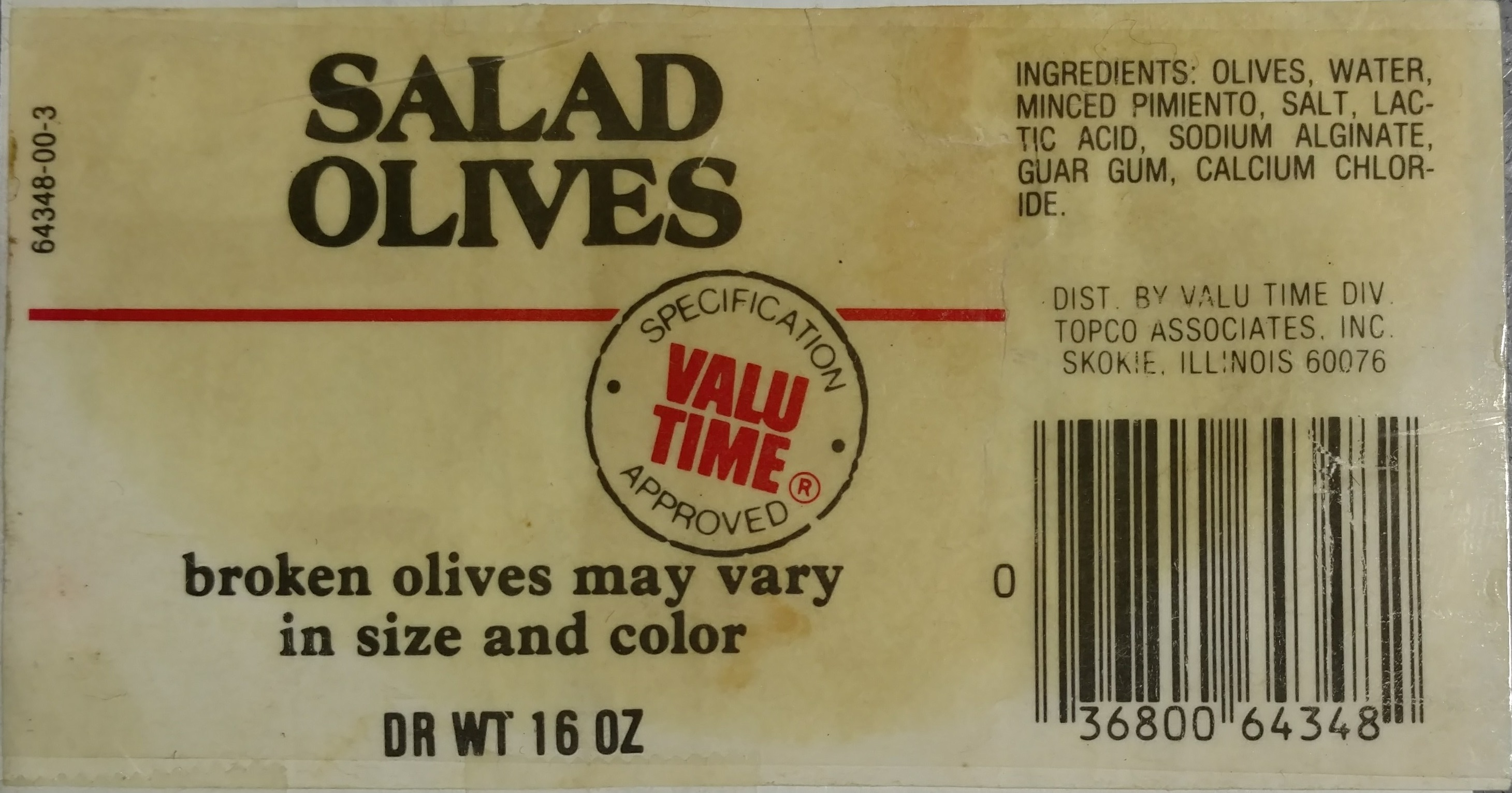 Photo of Valu Time label design found on many supermarket consumables in the 1980's.